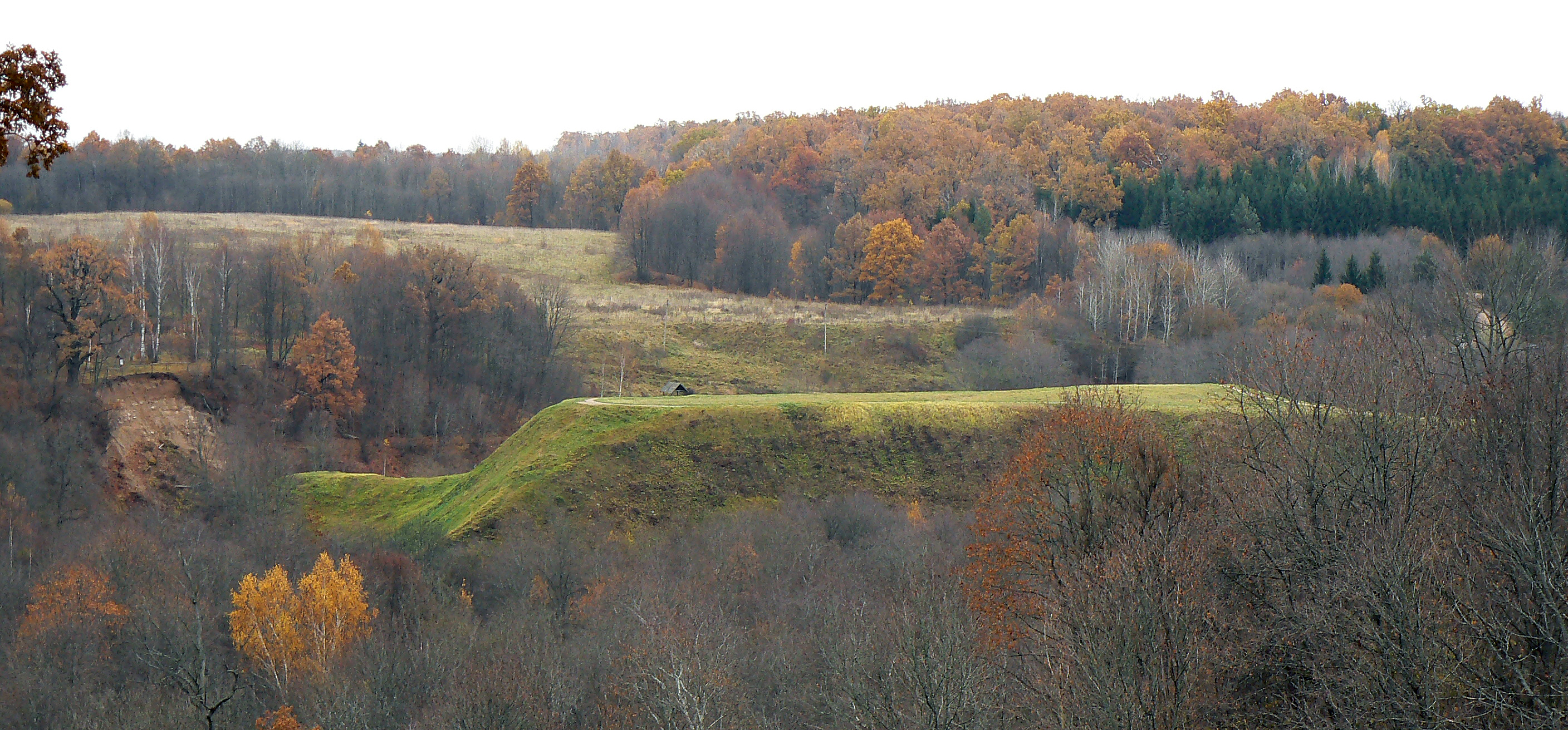 Bradeliškiai hillfort.